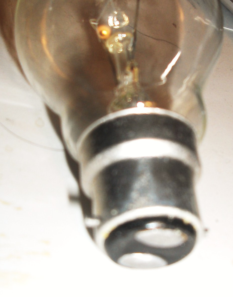 BC base of an incandescent lamp